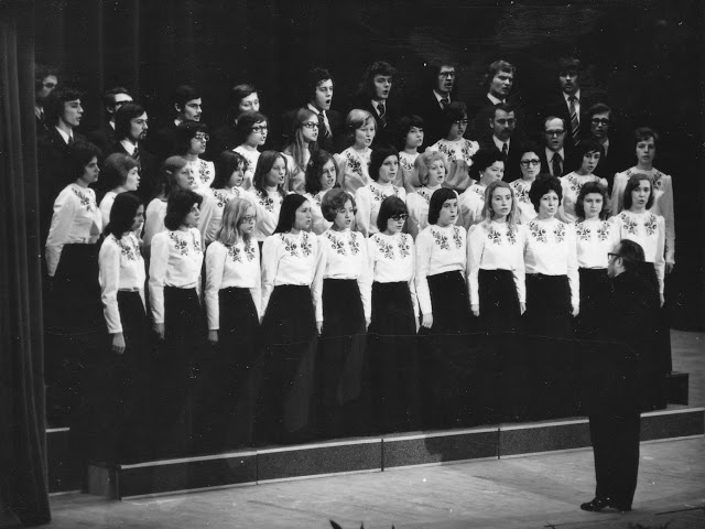 Kecskemét choir Conducted by Paul Kardos